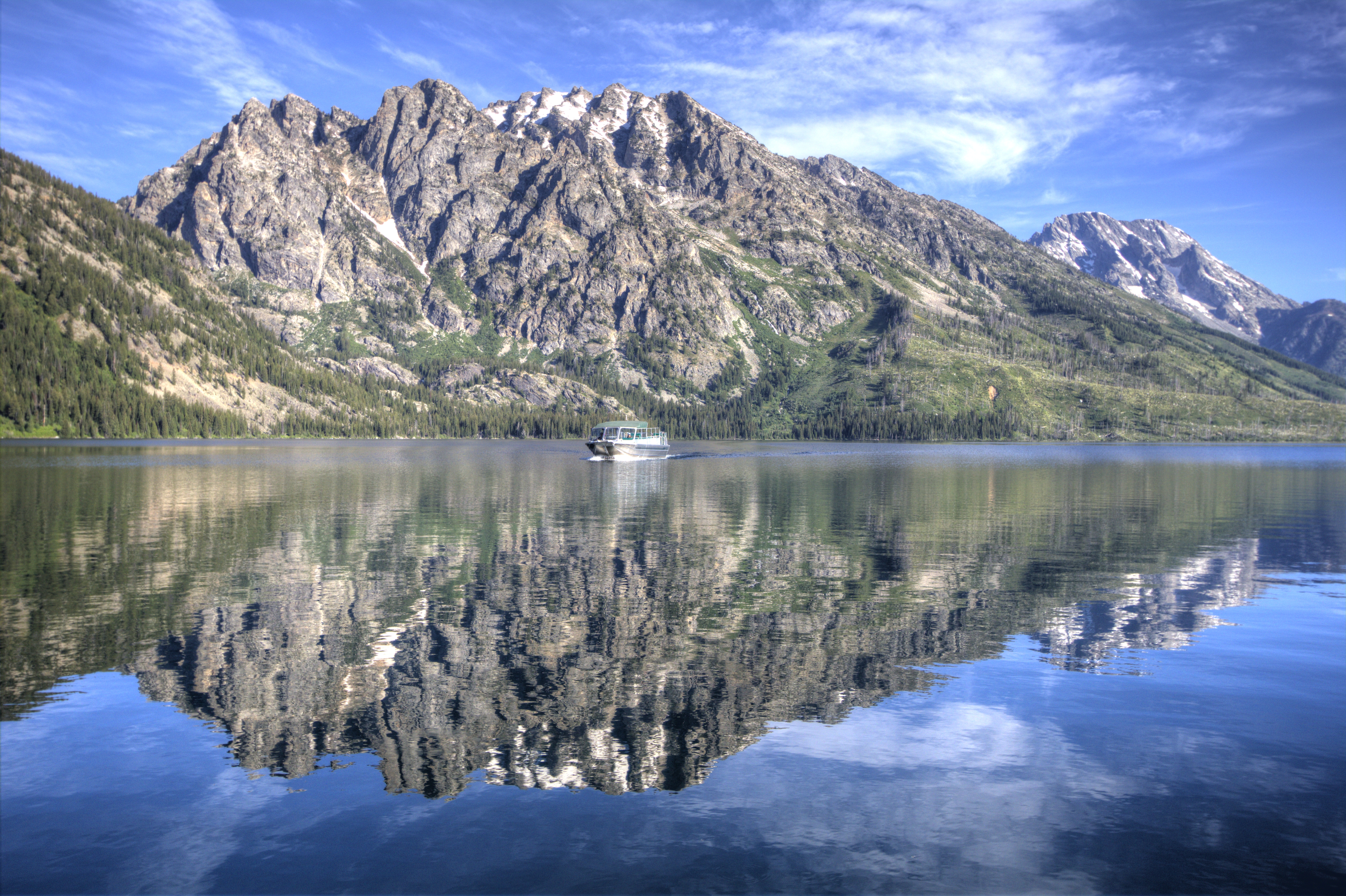 A view of Grand Teton reflected off of Jenny Lake which includes the ferry.